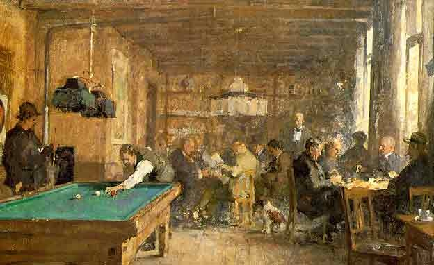 Het Kroegje van Hamdorf